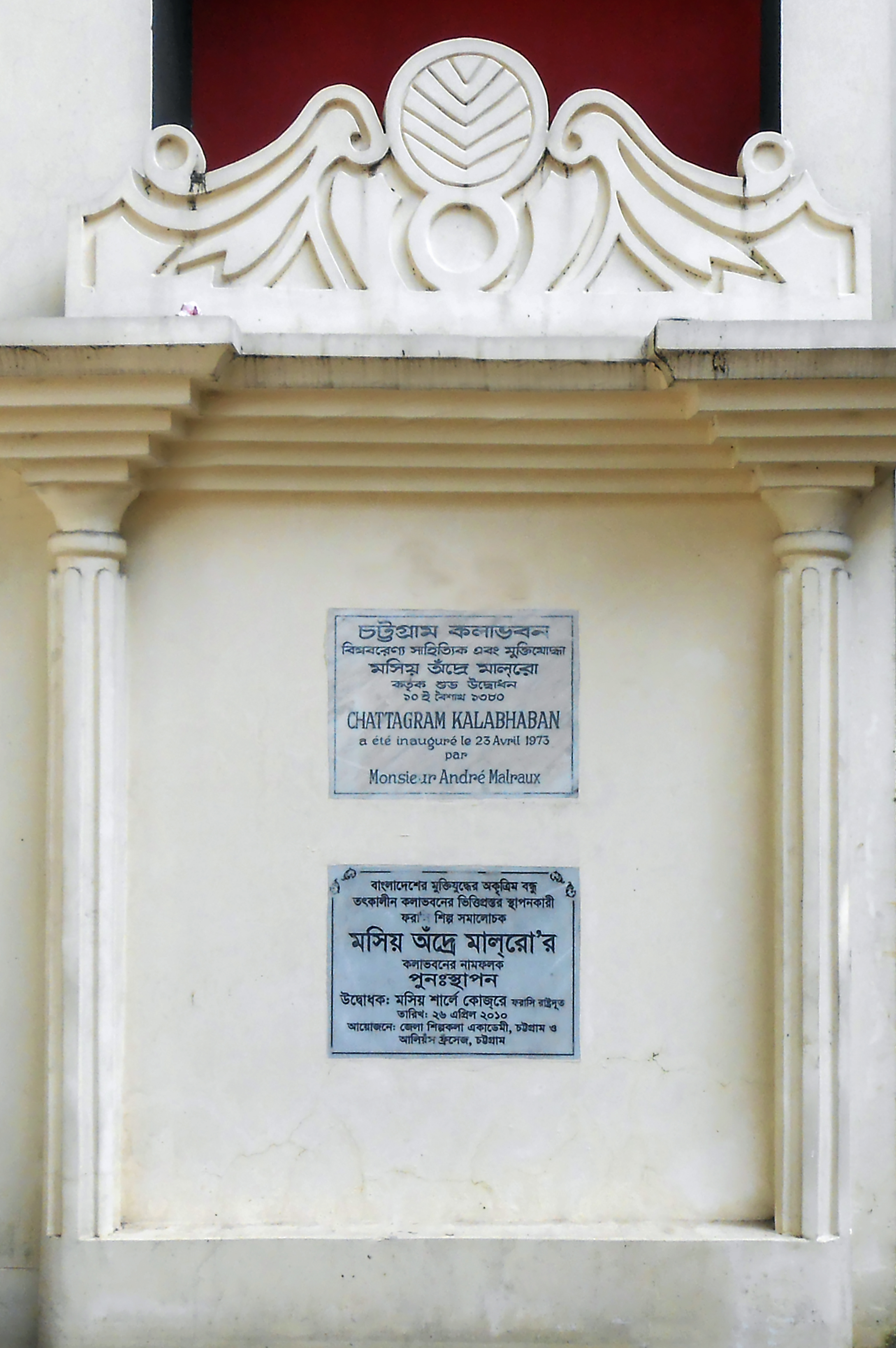 Chattagram Kalabhaban (